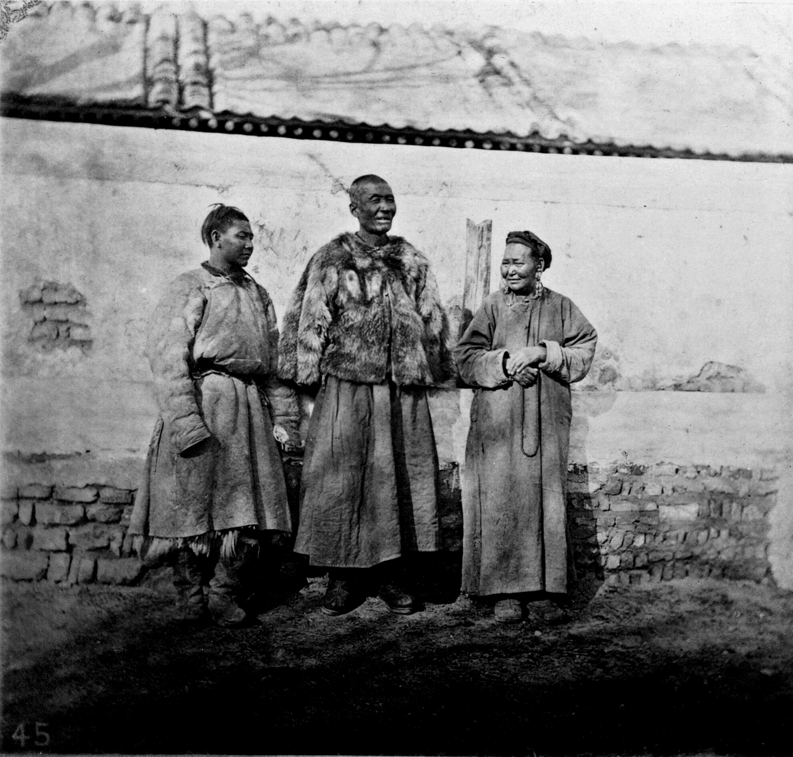 John Thomson: THE Mongols here shown (No. 45) belong to the nomadic and pastoral races inhabiting the steppes of Mongolia. They visit Peking in great numbers during the winter months, and bring with them herds of cattle, quantities of frozen game, as well as the rich furs for which their country is famous. There is a Mongol market at the back of the British Legation, and there they congregate and pitch their tents. I found that this old lady's family had rented a Chinese dwelling, and, strange as it may seem, had stabled their mules in the dwelling-house proper, while they pitched their own tents in the courtyard outside. This is no uncommon practice with them, and shows how habit among these nomads has become a second nature. Dr. Williams gives us a correct description of the physical appearance of these Mongols. He says: — "The Mongol tribes generally are a stout, squat, swarthy, ill-favoured race of men, having high and broad shoulders, short broad noses, pointed and prominent chins, long teeth distant from each other, eyes black, elliptical, and unsteady, thick short necks extremely bony and nervous, muscular thighs, but short legs, with a stature nearly or quite equal to the European." They seem now-a-days to have forgotten the art of war, and, indeed, to have changed their whole nature since the time of Genghis Khan.